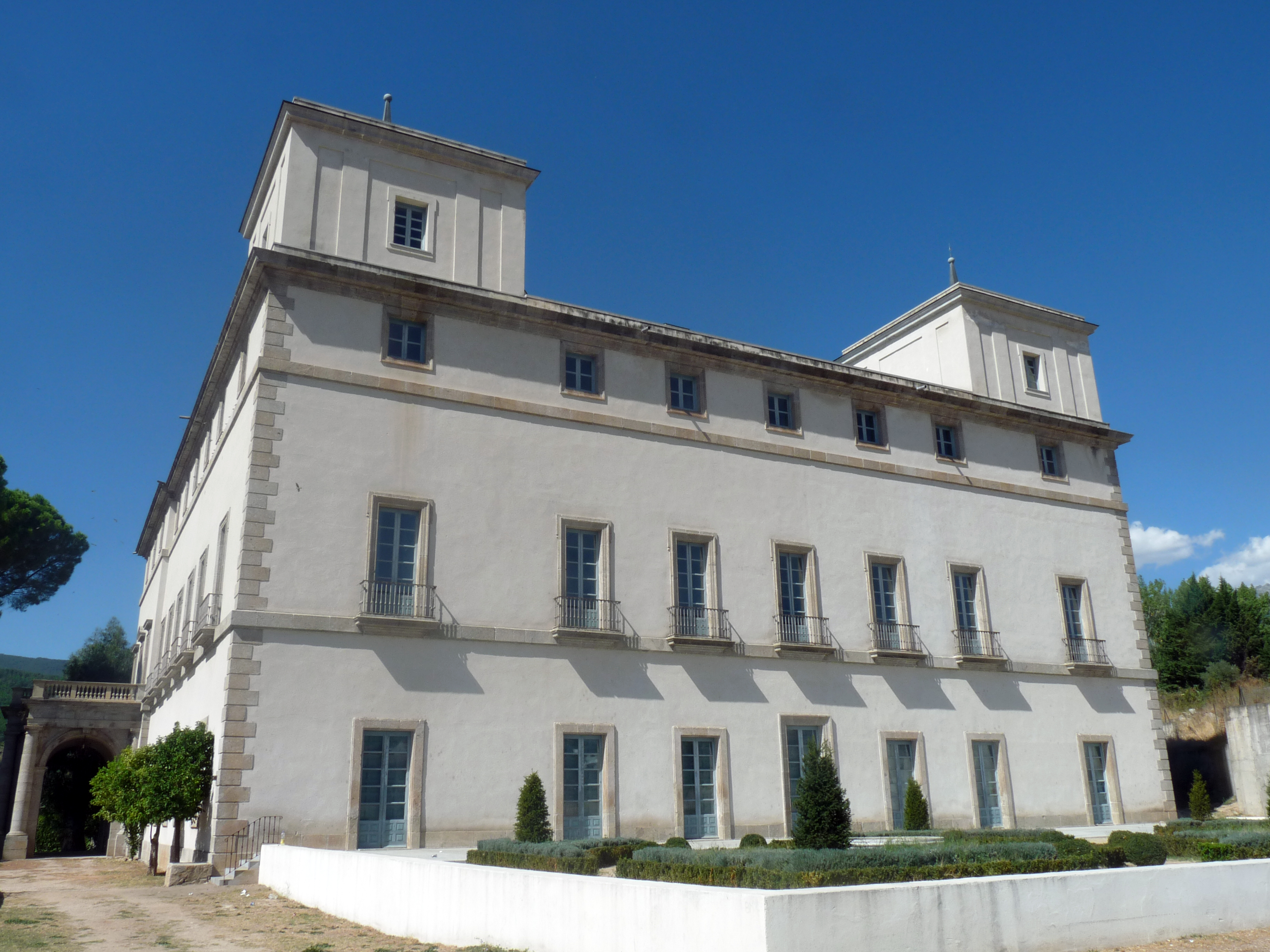 Palacio de la Mosquera, Arenas de San Pedro, Ávila, Castile and León, Spain.